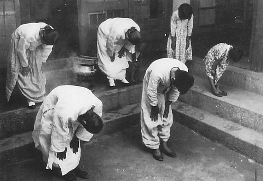 Kyujo-Yohai(Worshipping the Imperial House from afar) by Korean people